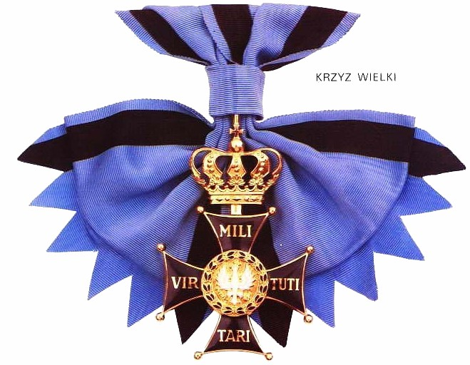 Grand Cross of Virtuti Militari Order, Poland. The Highest Military Order in Poland. Grand Cross (Ist of Order) Official Pattern